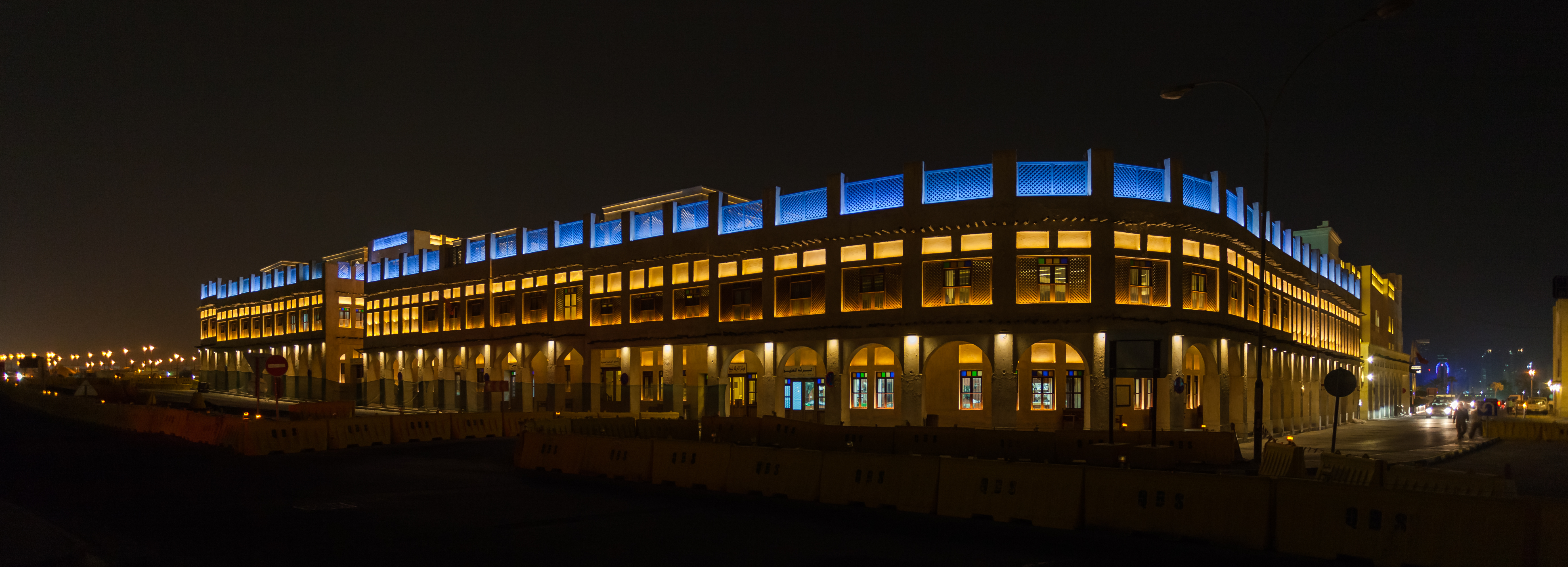 Souq Waqif, Doha, Qatar